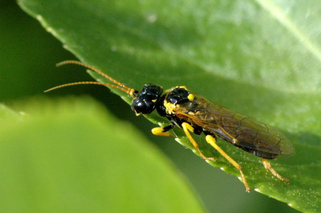 Pamphilius sylvaticus from Commanster, Belgian High Ardennes .